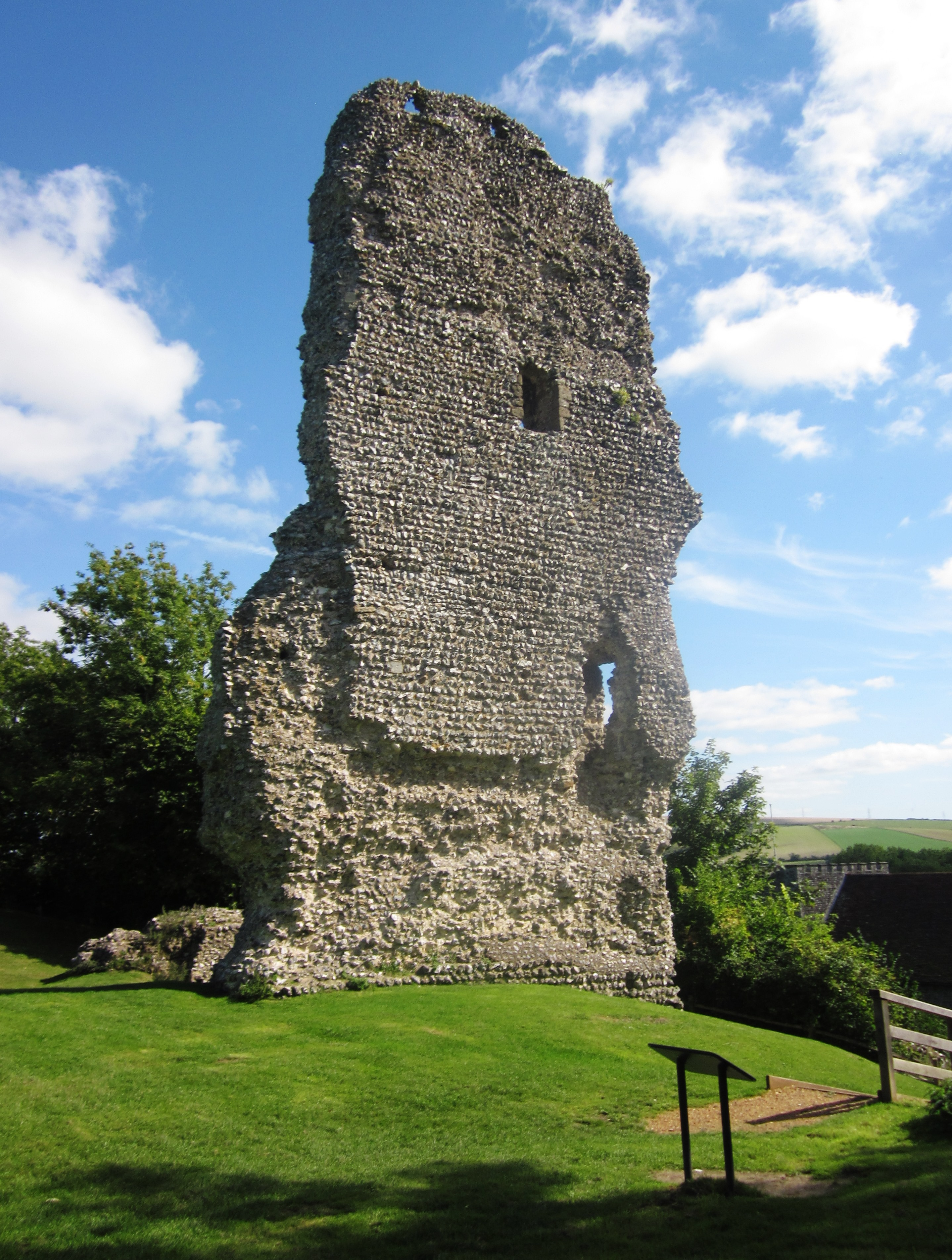 Remains of the Norman keep of Old Bramber Castle near the river Adur in West Sussex, England, United Kingdom